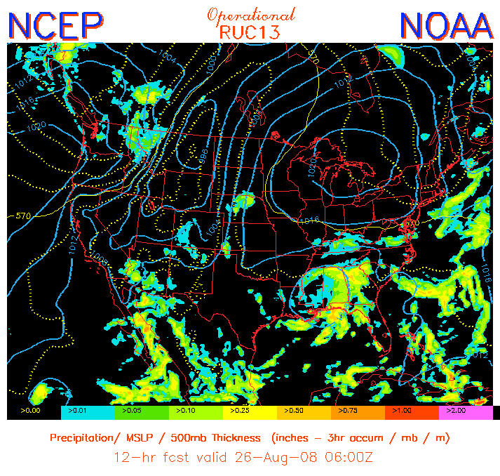 A sample output image of the RUC2 meteorological forecast model showing precipitation, mean sea-level pressure, and 500mb thickness forecast for 0600Z on August 26th, 2008.